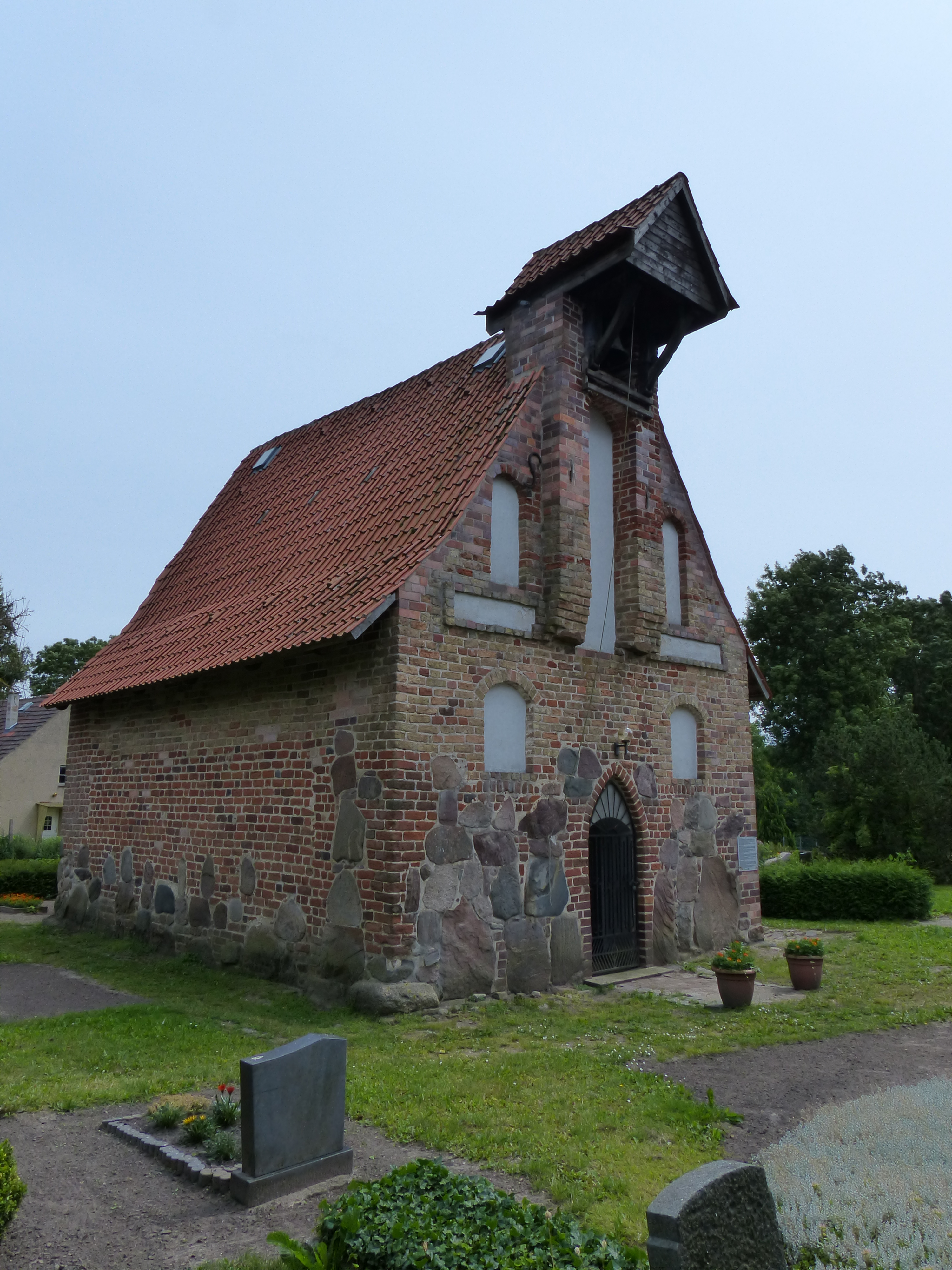 Tramstow Kirche